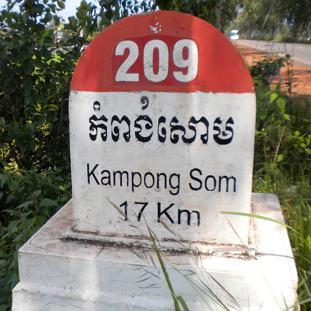 image of a mile stone near Sihanoukville, October 2014